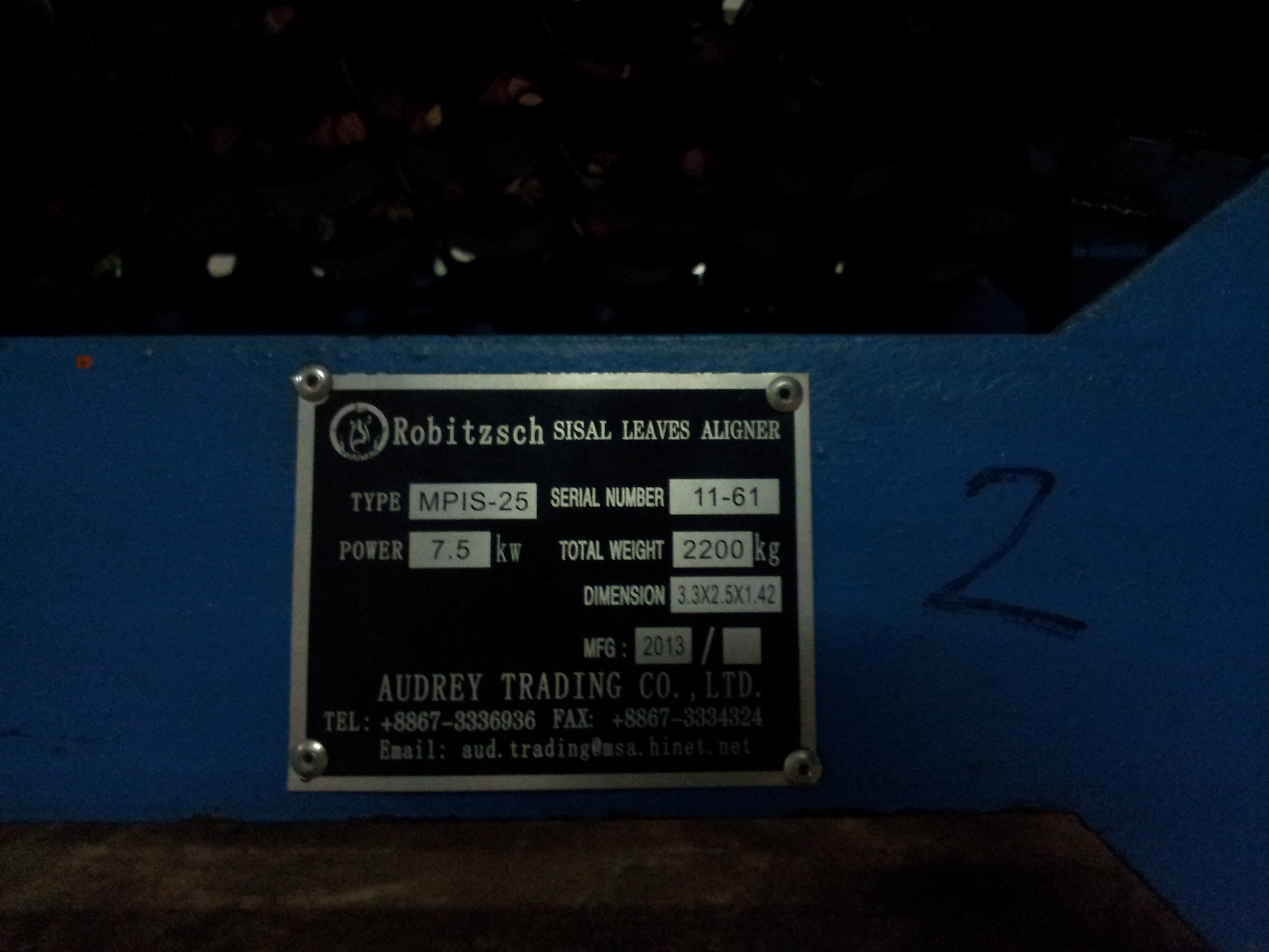 Aligner can arrange the leaves even as the first step